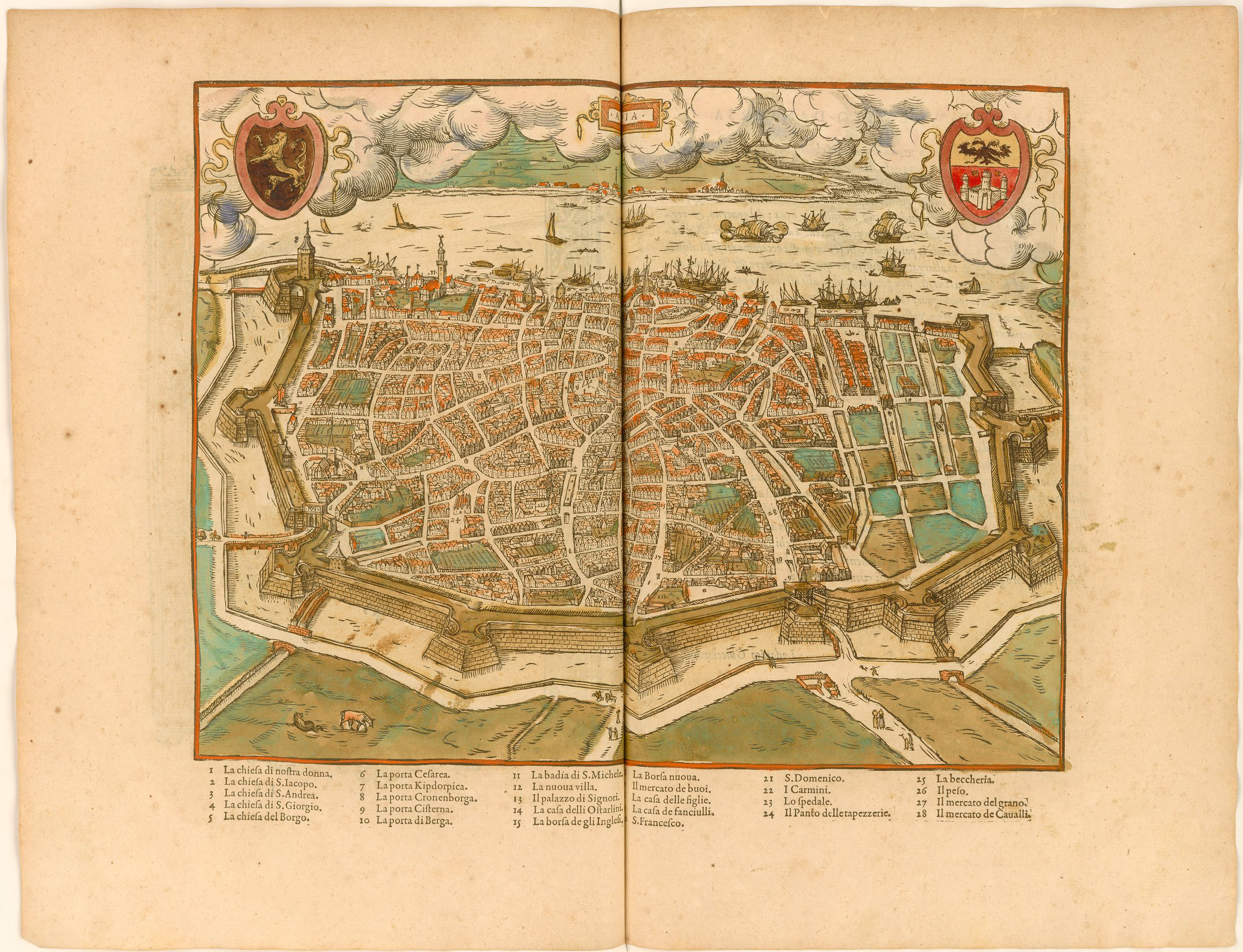 Engraved and colored map of the city of Antwerp, Belgium. Includes city walls, farms outside the walls, and a busy harbor with ships. Also includes coat of arms of Belgium and coat of arms of Antwerp. Text in Italian. Published in Antwerp.